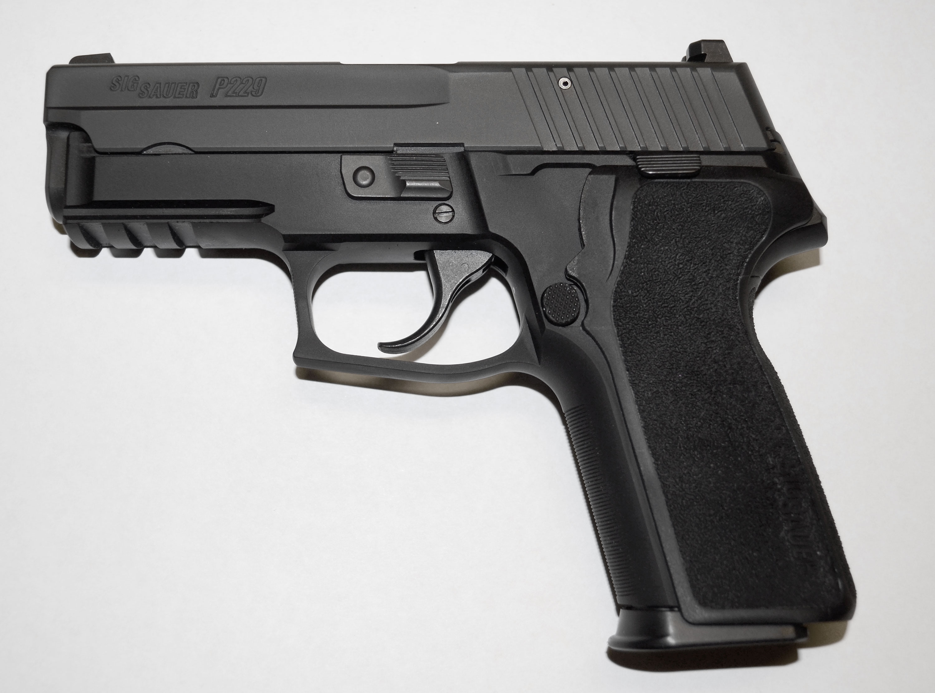 This is a photo of a 2011 model SIG Sauer P229R DAK, featuring the clip-on Enhanced Ergonomics "E2" grip.